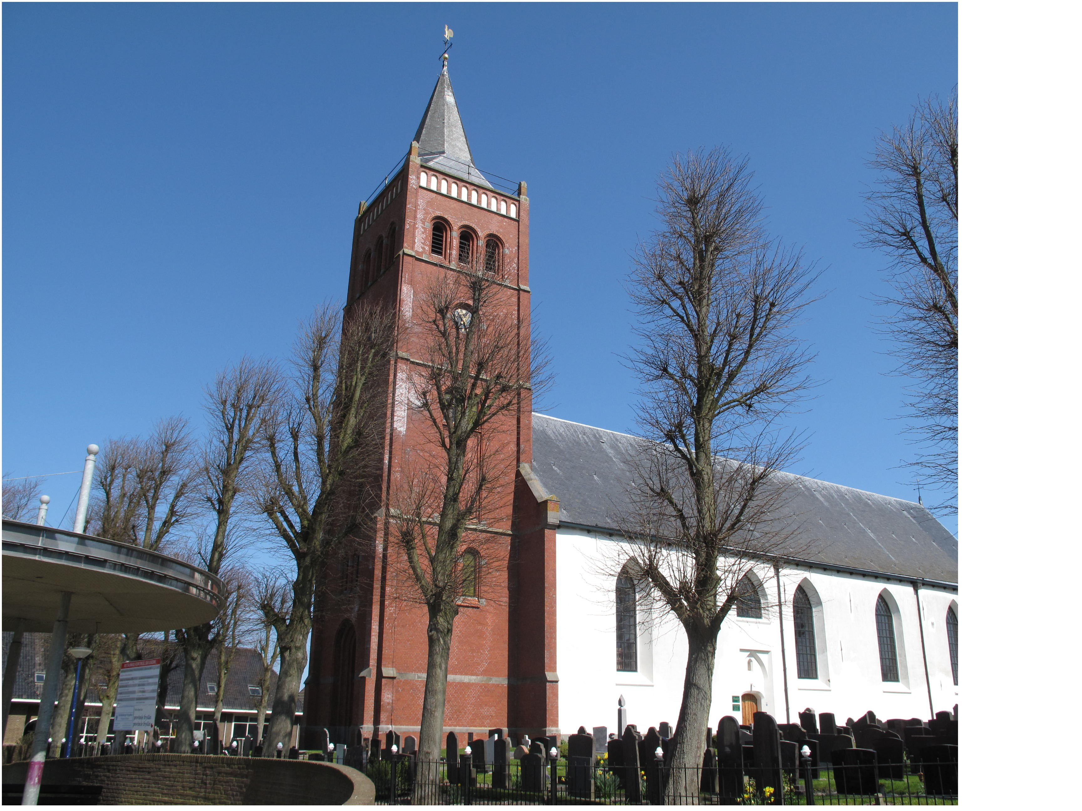 Sexbierum, church: Sixtuskerk